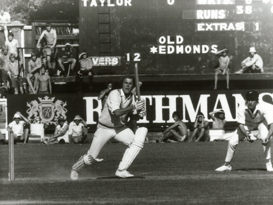 February 1978, Basin Reserve, Wellington AAQT 6539 W3537 box 16 L7/14/3/233